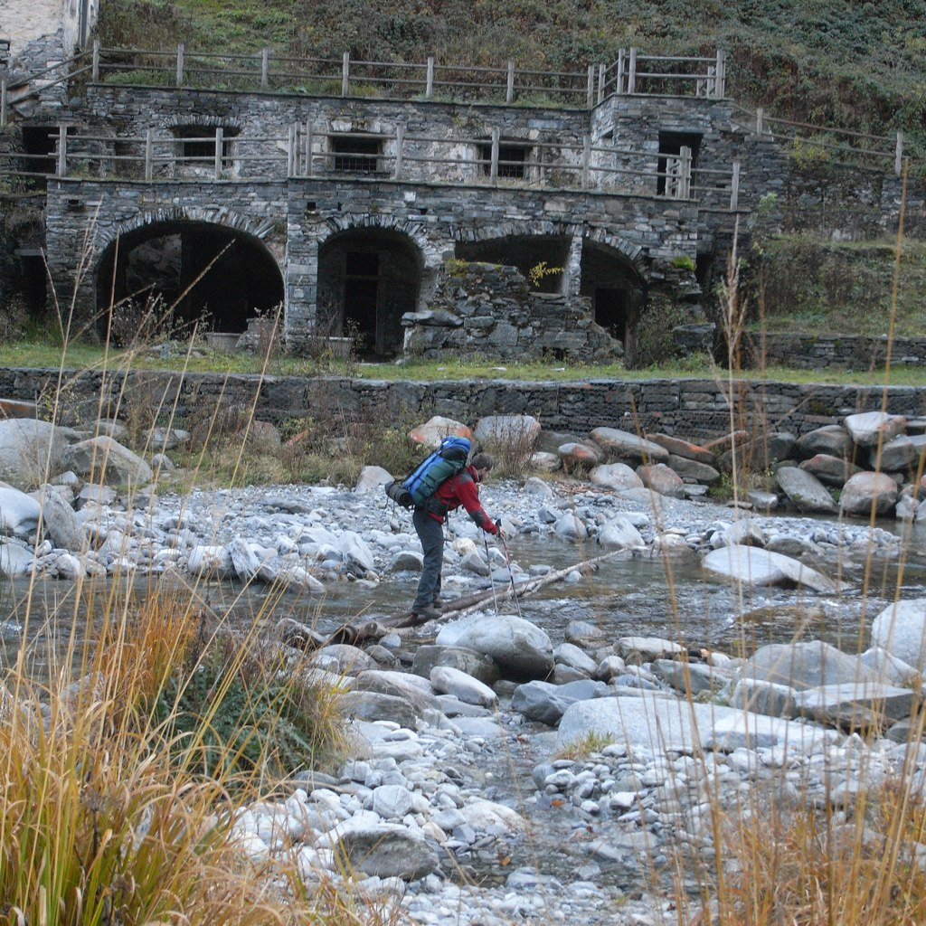 only 50m away from the target, carefully crossing the border between switzerland and italy :-)